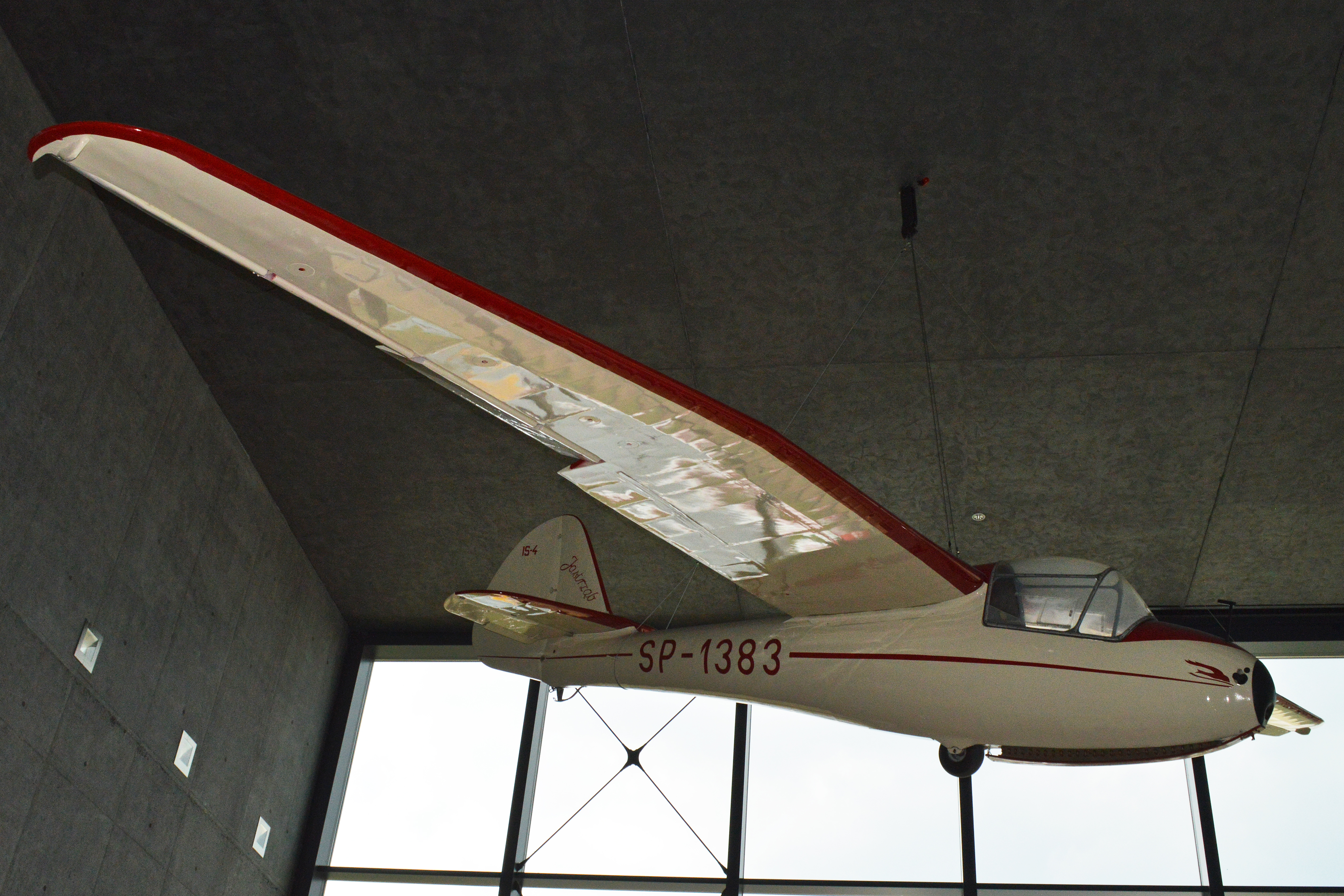 Designed and built by Instytut Szybownictwa in Poland, the IS-4 was a single seat aerobatic glider. The type first flew in 1949. 37 were built. c/n 004. On display suspended in the new entrance building at the Muzeum Lotnictwa Polskiego Krakow, Poland. 23-08-2013